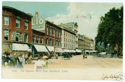 Postcard: West Side, the Square, Stamford, Connecticut, postmarked 1906 Description: "The Square, West Side, Stamford, Conn. Card is used postally; see scan for condition. Includes .01 Benjamin Franklin Stamp. Per postmark, mailed 1906 from Stamford. Published by Rotograph, Nr. 51031."